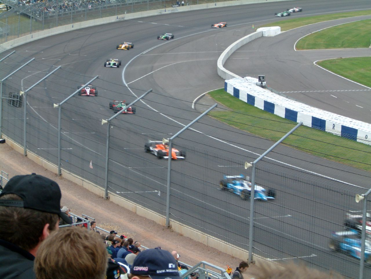 The first racing lap of the 2002 Sure For Men Rockingham 500